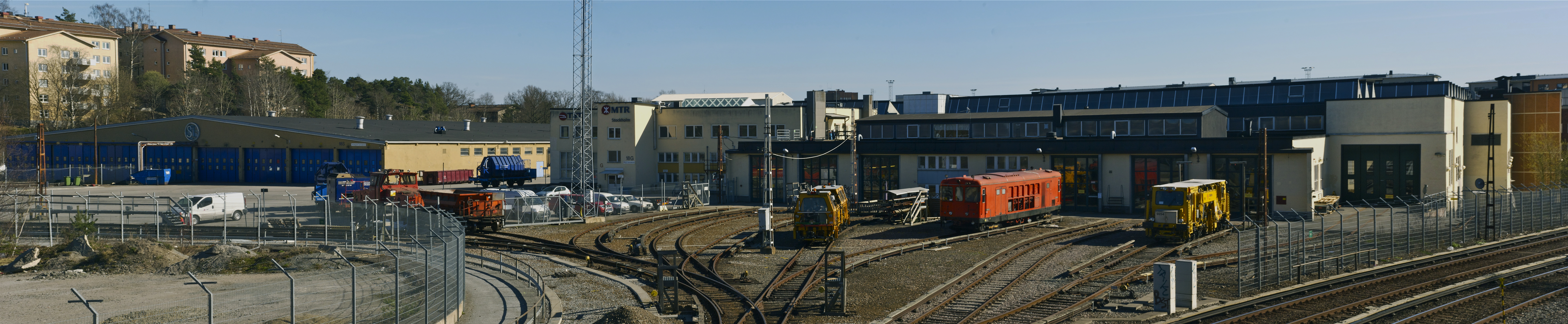 Hammarbydepån (Hammarby depot), Stockholm Metro. NOTE: This image is a panorama consisting of multiple frames that were merged in software. As a result, this image necessarily underwent some form of digital manipulation. These manipulations may include blending, blurring, cloning, and color and perspective adjustments. As a result of these adjustments, the image content may be slightly different than reality at the points where multiple images were combined. This manipulation is often required due to lens, perspective, and parallax distortions.